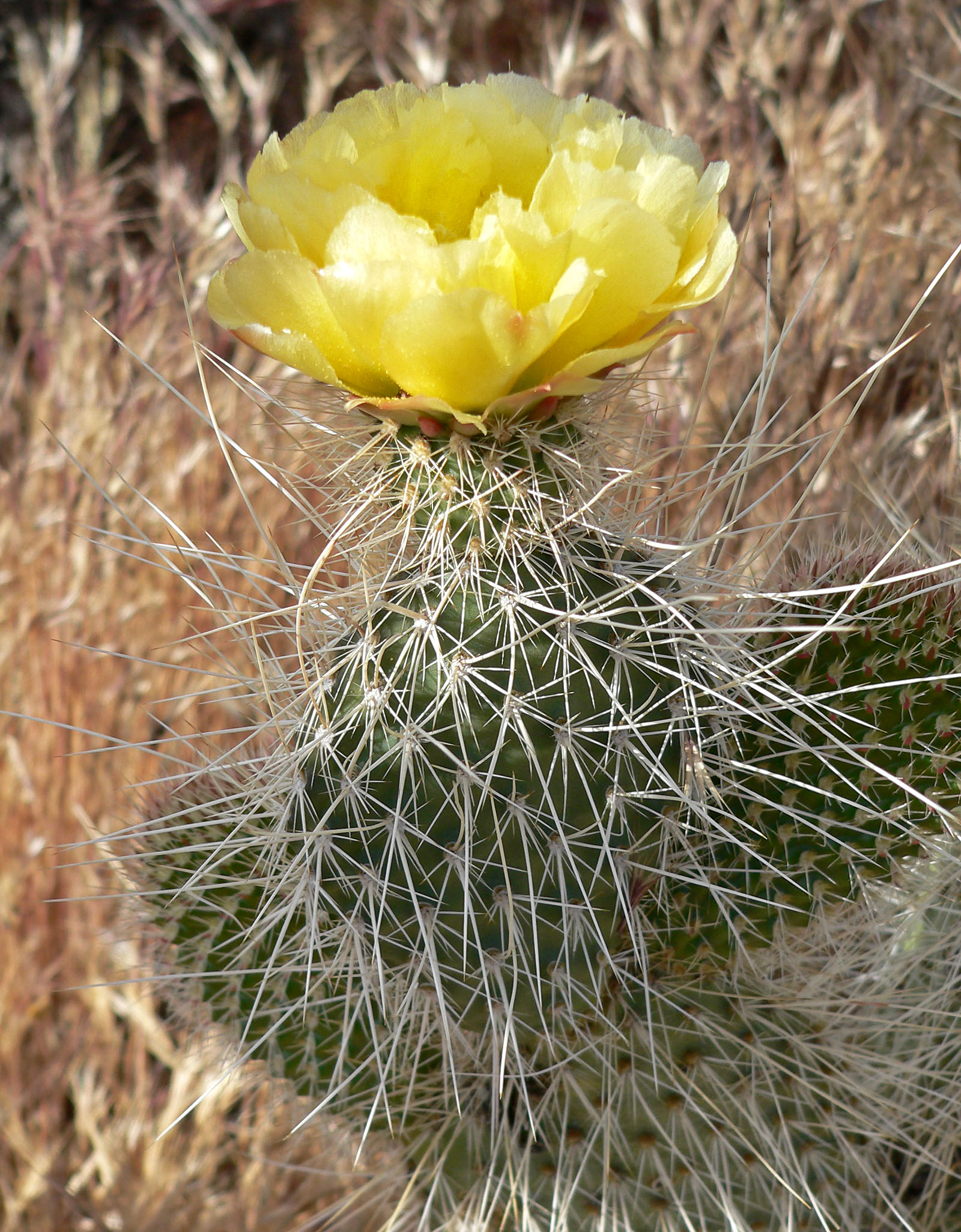 Opuntia polyacantha var. erinacea in Red Rock Canyon, Nevada